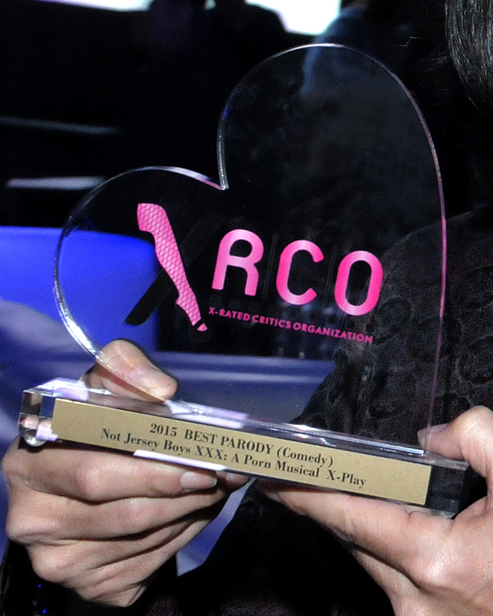 New XRCO Award for 2015 - Photo by Glenn Francis of